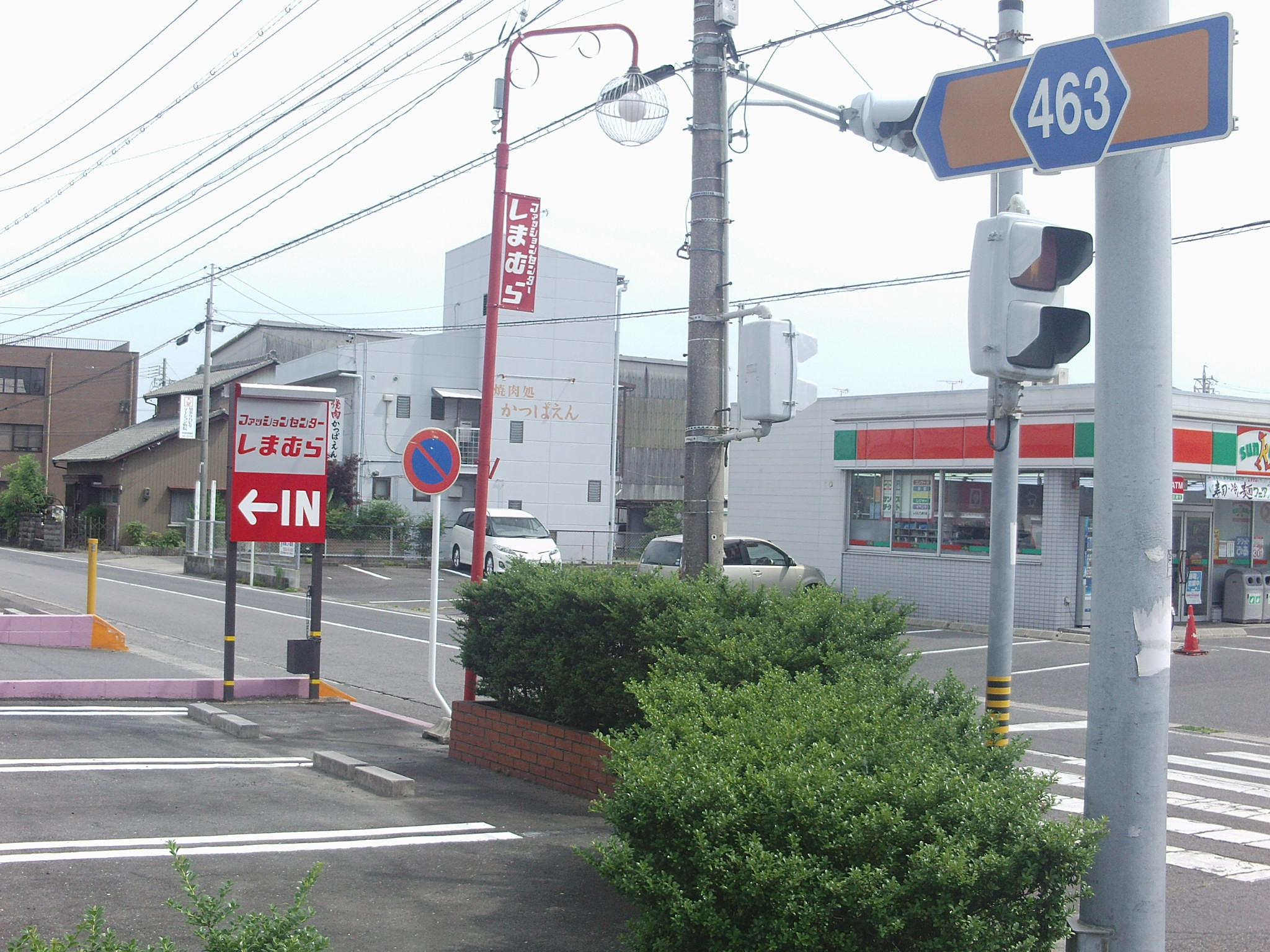 Aichi prefectural road No.463 in Fujie, Higashiura-cho, Chita-gun, Aichi.